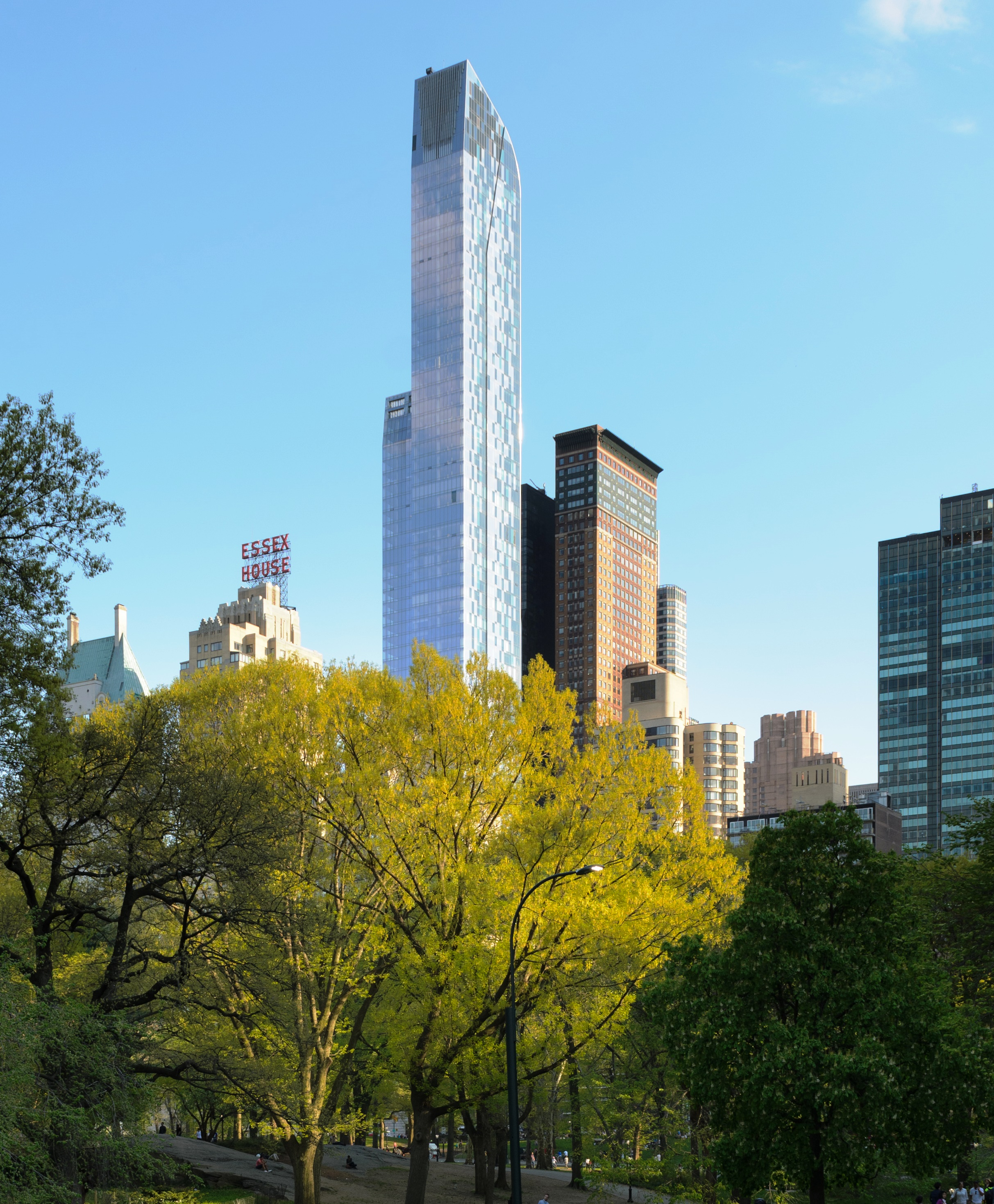 Midtown buildings above West Drive, Central Park, Manhattan, New York City.